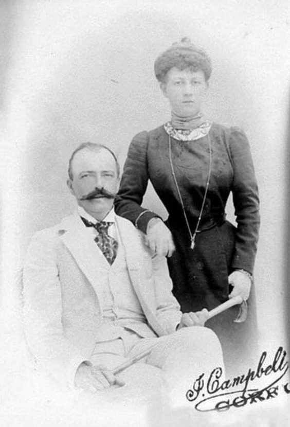 Princess Princess Maria of Greece and Denmark with her husband Grand Duke Geroge Mihailovich of Russia